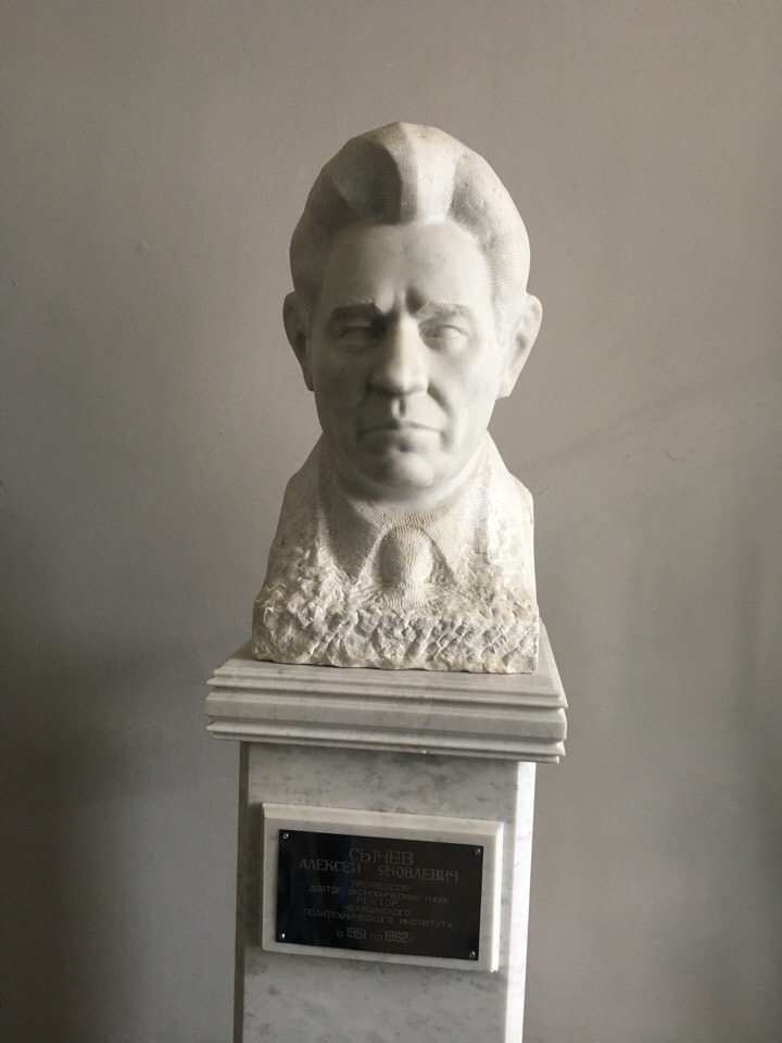 Сычев Алексей Яковлевич